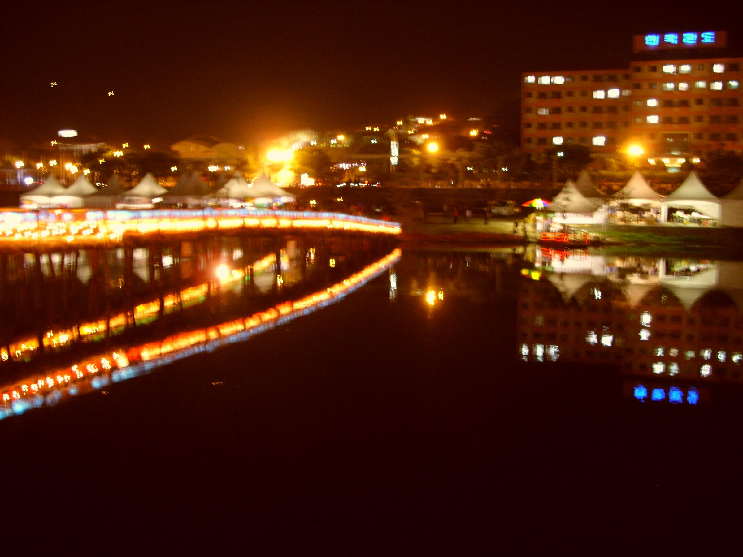 Chunhyang Festival.